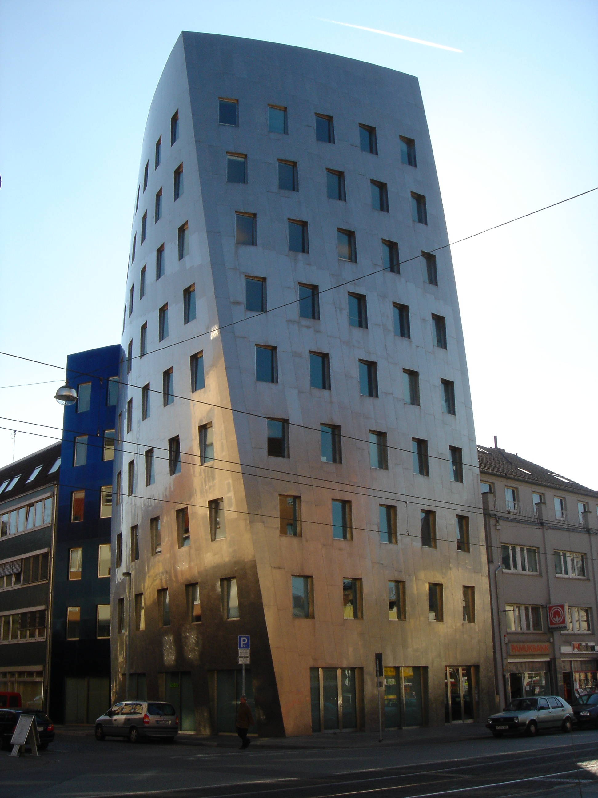 Gehry Tower in Hanover, Germany